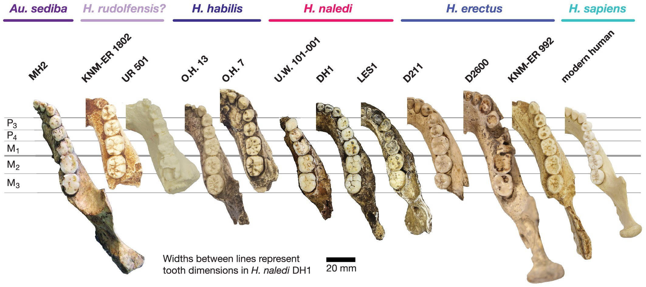 Mandibular and dental anatomy in H. naledi compared to other species of Homo. Right demi-mandibles attributed to H. rudolfensis, H. habilis, H. naledi, H. erectus, and H. sapiens are pictured. All mandibles are aligned using the line marking the distal edge of the first molar. Each of the six horizontal lines corresponds to the edges of teeth in the DH1 mandible, the holotype specimen of H. naledi, with corresponding teeth labeled to the left.